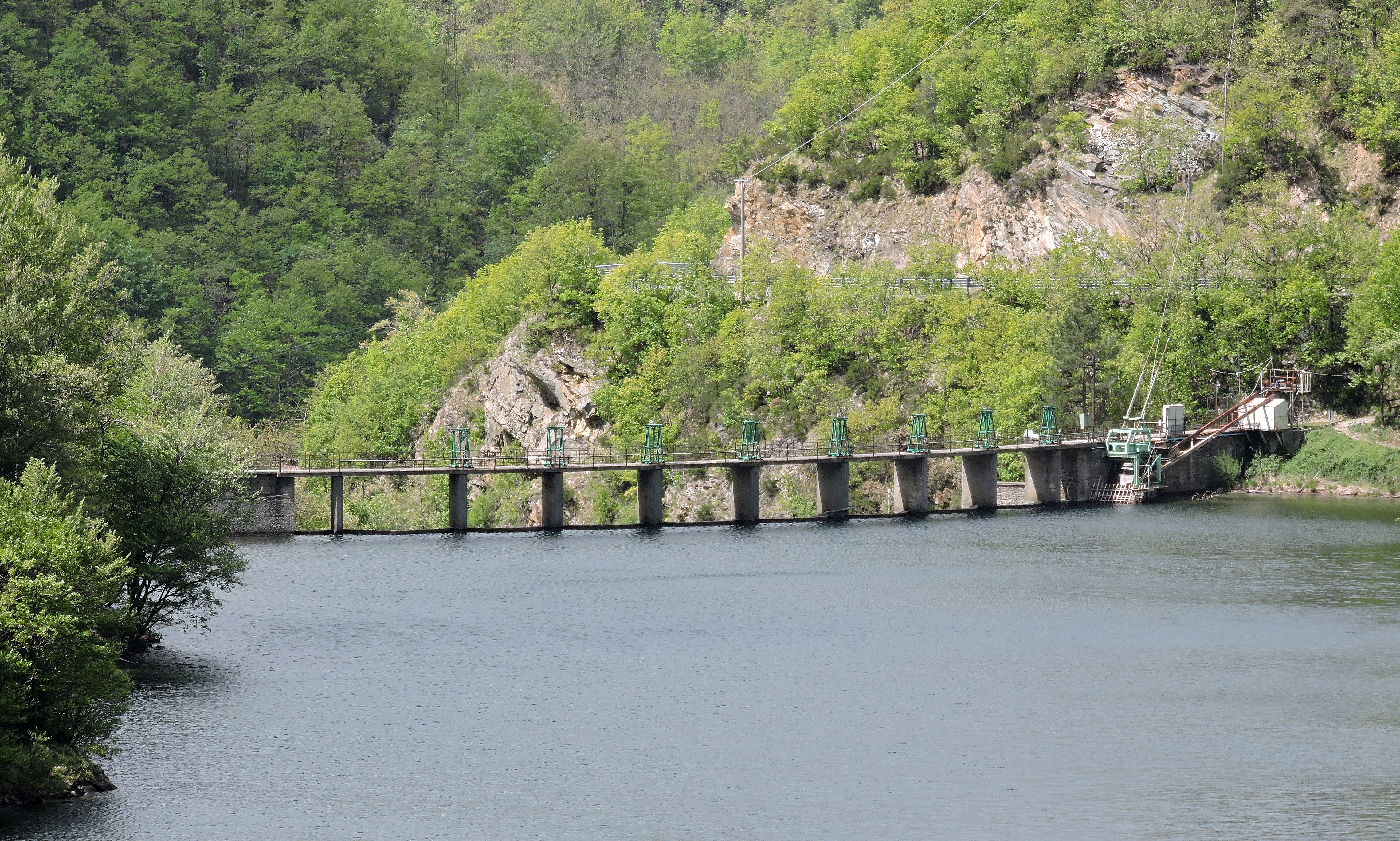 Antenna dam (Ligurian Apennine, Italy)